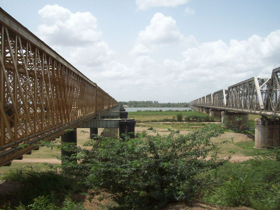 SILVER JUBILEE RAILWAY BRIDGE BHARUCH